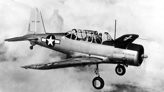 Vultee SNV-2 "Valiant" trainer of the U.S. Navy.